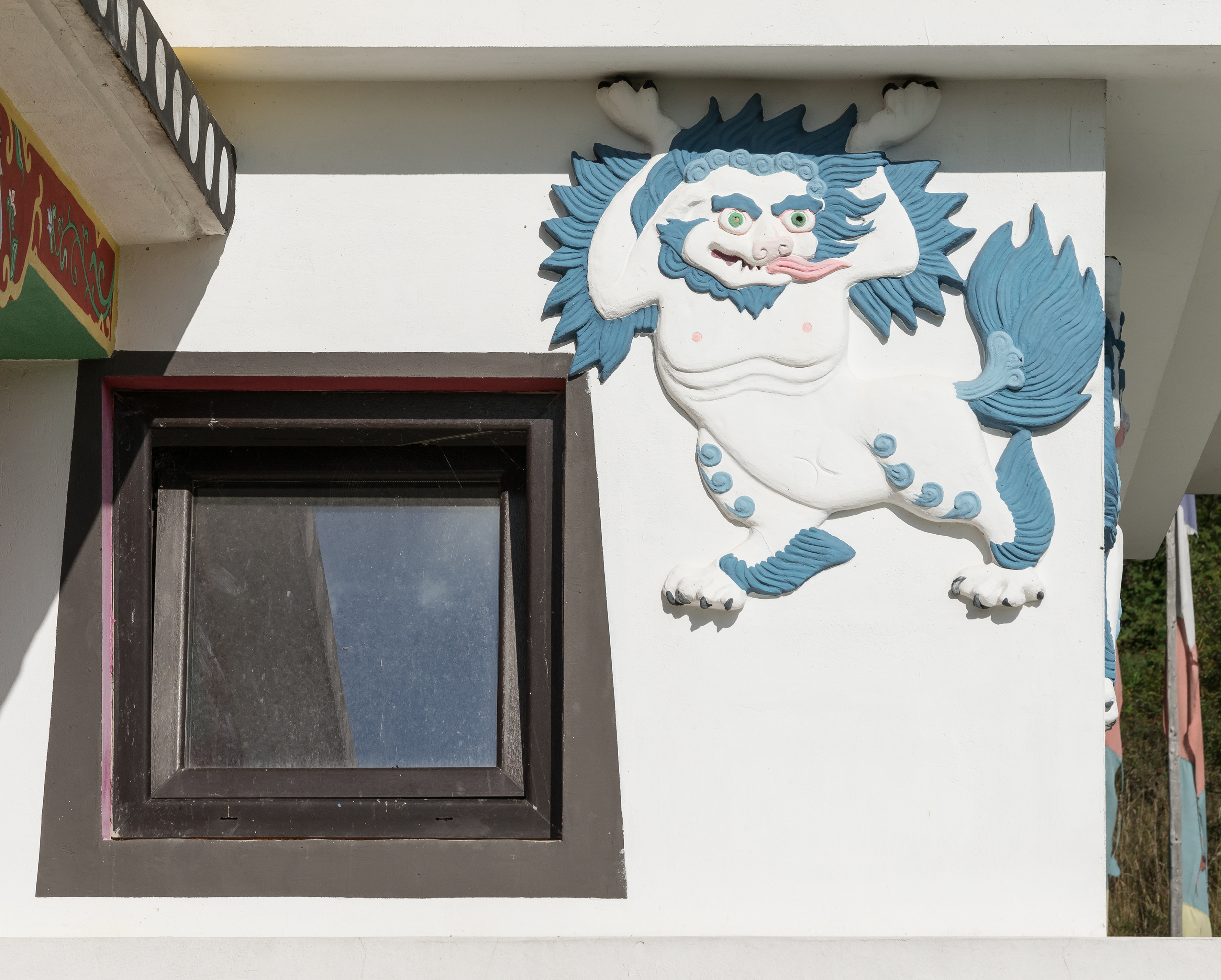 Stupa in Gompa Drophan Ling in Darnków, Vajrapani